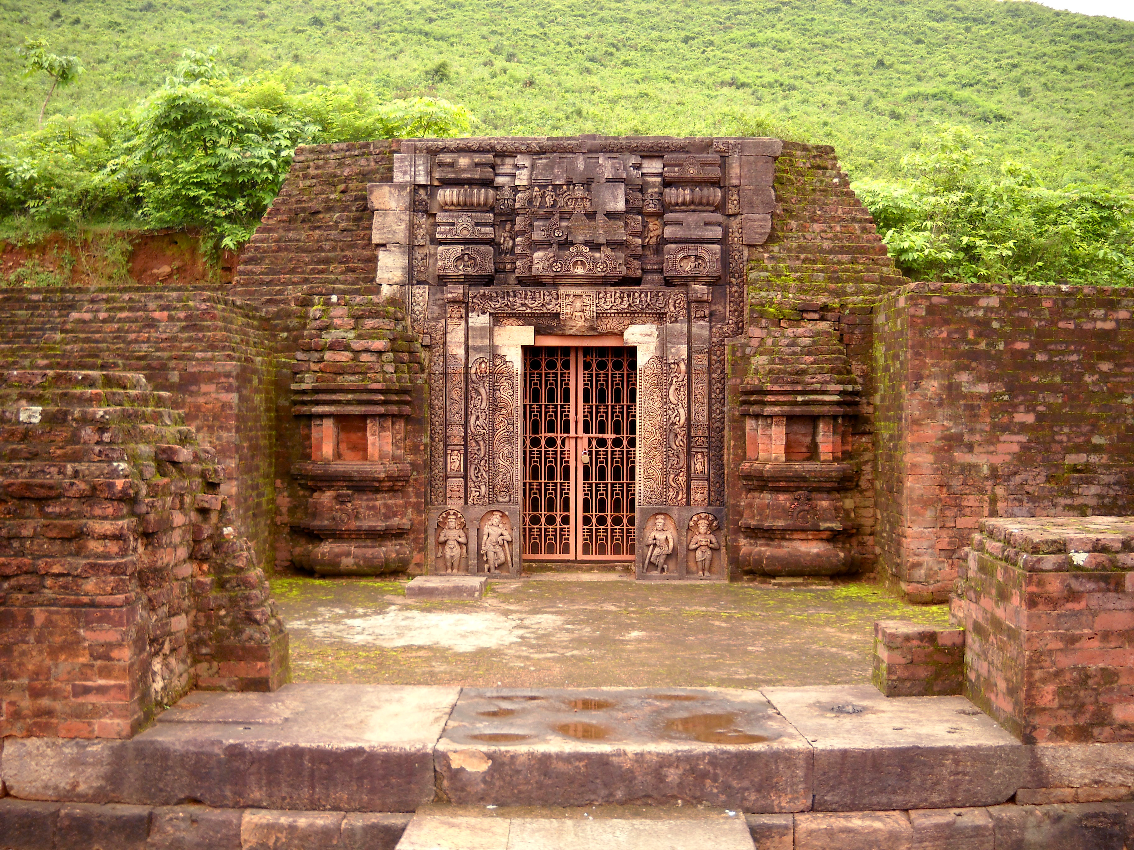 Buddhist site (excavated)